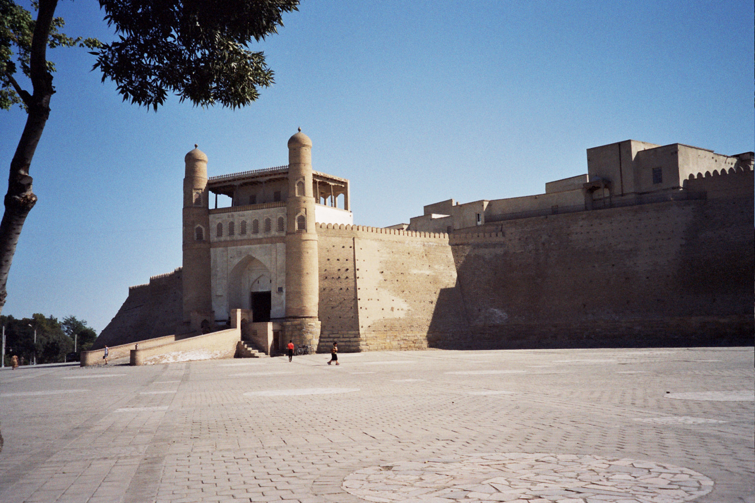 the big imposing entrance